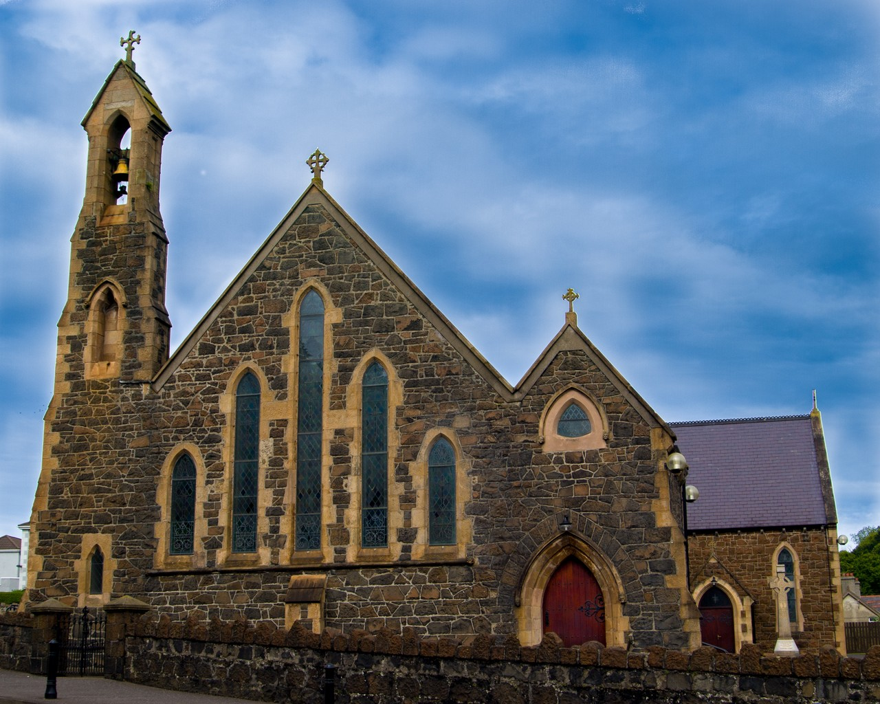 Photo of St. MacNissi's Church, Agnew Street, Larne as of 2012.